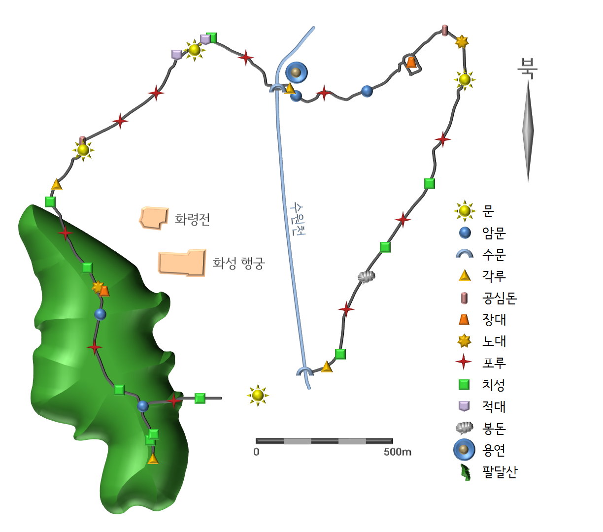 Map of Hwaseong Fortress, Suwon, South Korea 대한민국 경기도 수원시 화성 지도 Self-made